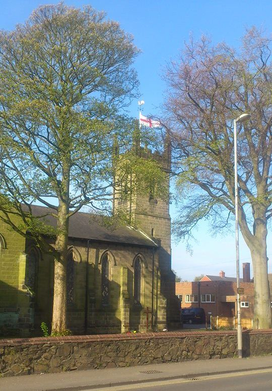 Coalville Parish Church on London Road, photographed on Saint George's Day, April 23rd 2014